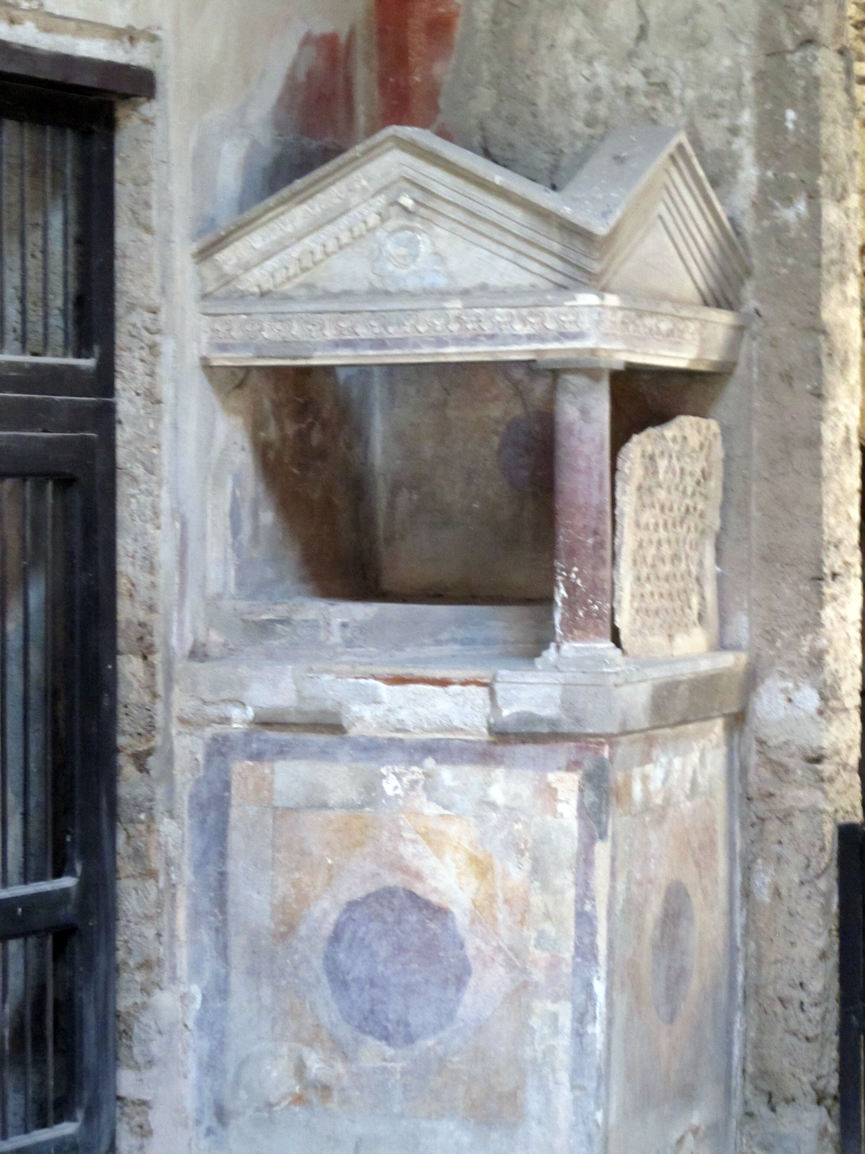 In the corner of the atrium is a small temple-like structure (aedicula) which was the shrine (lararium) of the household gods, or lares. This was a fairly wealthy family who could afford an aedicula, but the lararium of less well-off households might have been a just wall niche or a painted shrine on a wall.